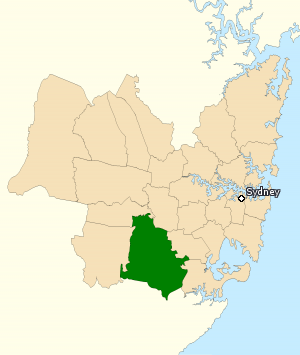 This image incorporates data that is: © Commonwealth of Australia (Australian Electoral Commission) 2009 Division of Hughes 2010